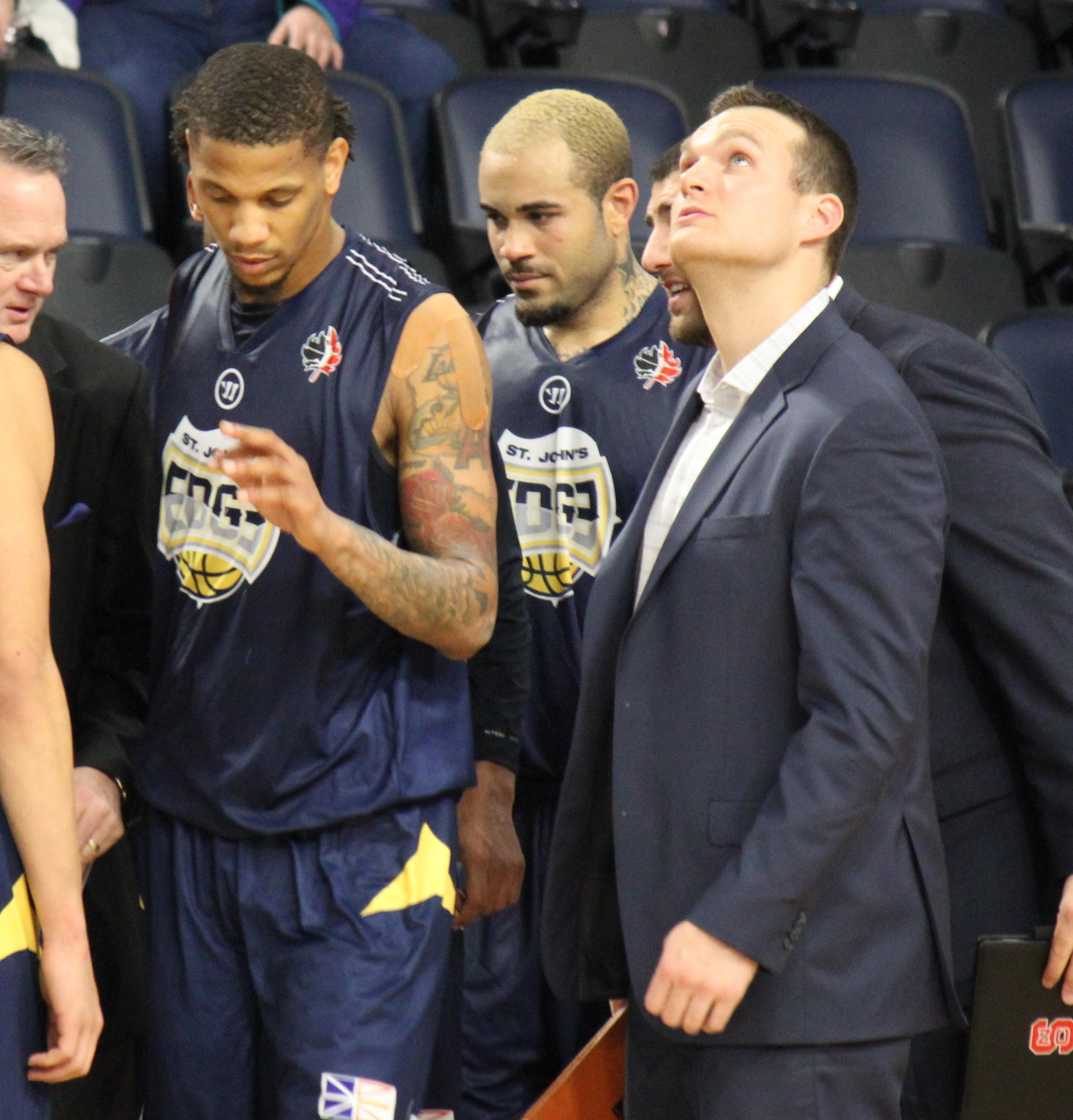 halifax